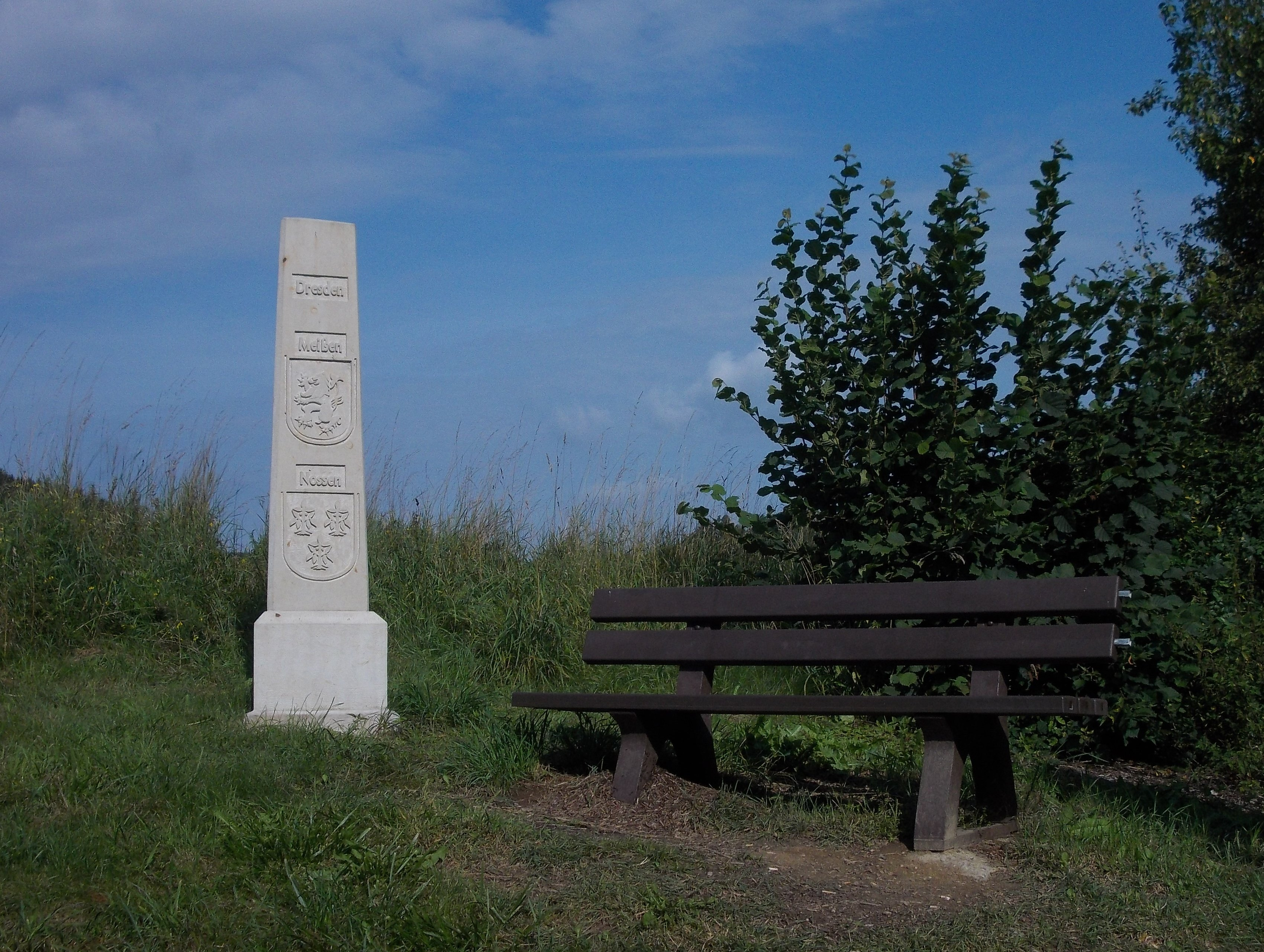 "Saxon Corner" near Kummersheim (Striegistal, Mittelsachsen district, Saxony), on the border of several administrative districts of Saxony